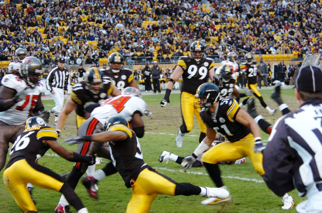 Game action in Pittsburgh during a Pittsburgh Steelers (black/yellow) vs. Tampa Bay Buccaneers (white/red) National Football League game on December 3, 2006. Players depicted include: (Steelers #99) Brett Keisel; (Steelers #51) James Farrior; (Steelers #26) Deshea Townsend; (Bucs #75) Davin Joseph